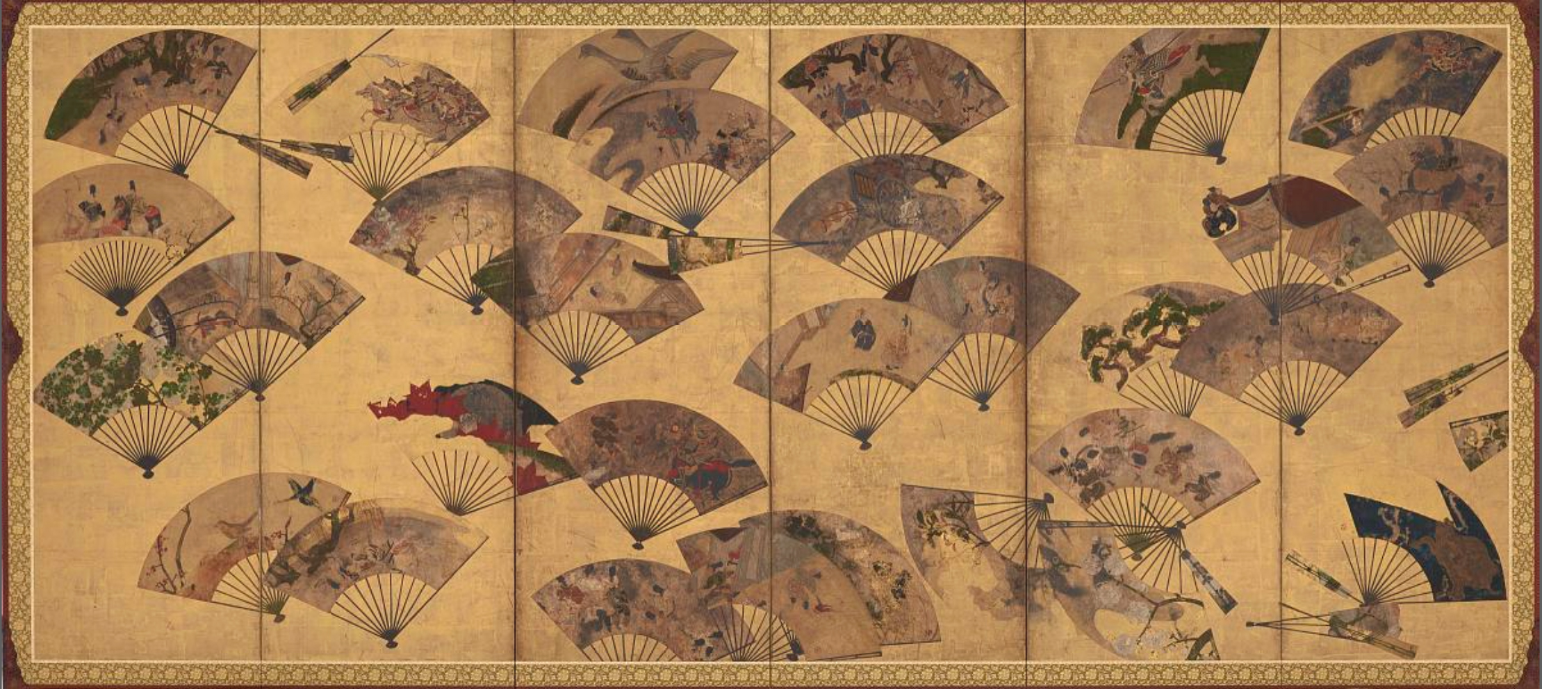 Screen with Scattered Fans. Tawaraya Sōtatsu. Six-panel folding screen, H x W (image): 154.5 × 362 cm. Color, gold, and silver over gold on paper. Freer Gallery of Art, Gift of Charles Lang Freer, F1900.24